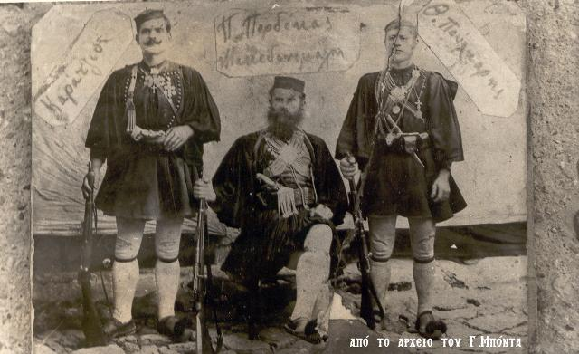 Thomas Karatzias, Pavlos Perdikas, Th. Poulkaris